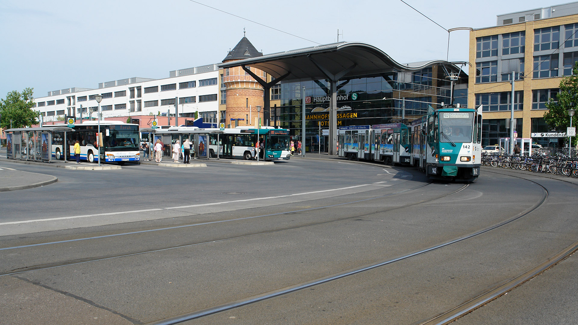 Tatra Kt4Dm at Potsdam Hauptbahnhof.